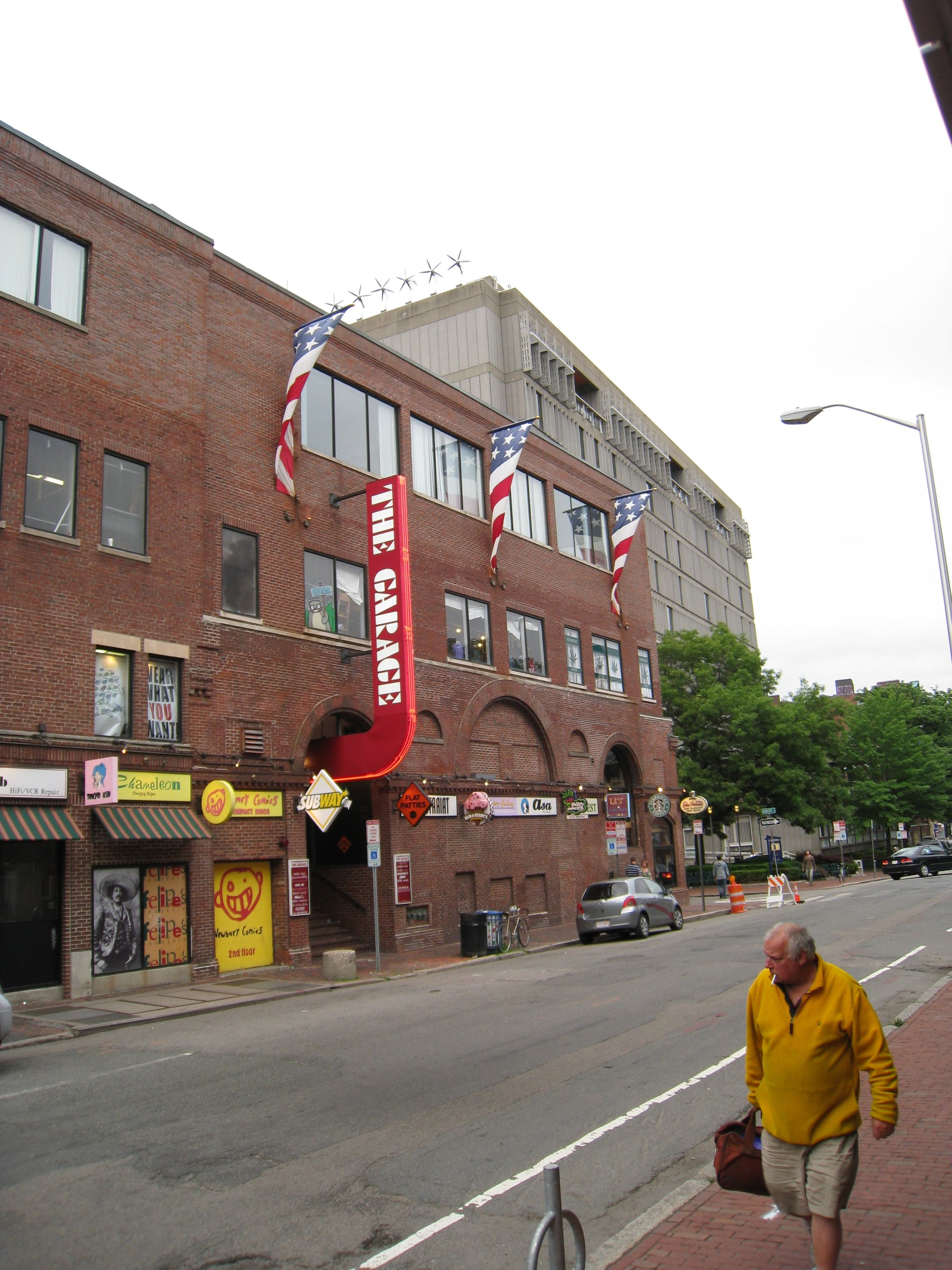 Note the wind turbines on the roof in the distance. The turbines are on the roof of Holyoke Center.